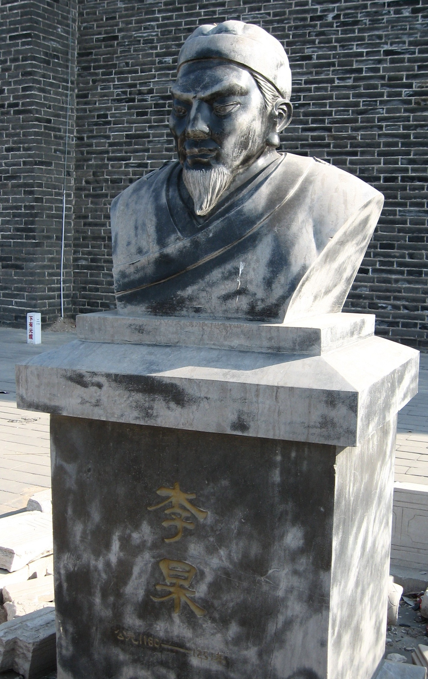 A statue of Li Gao. 中国河北省正定县南城门（长乐门）内的李杲雕像。